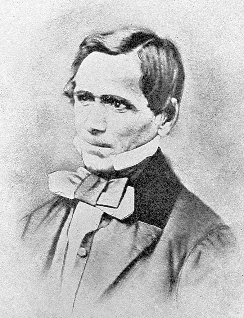 Picture of Alexis St. Martin, celebrated patient of Dr. William Beaumont, at the age of 67